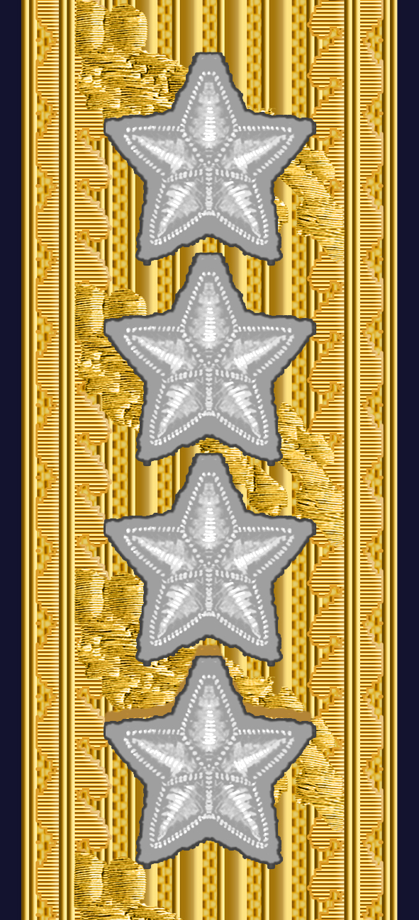 Insignia for Admiral (Swedish Navy) and General (Swedish Amphibious Corps) (OF-9).